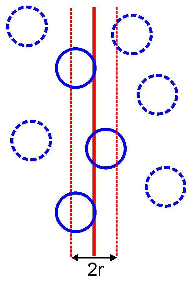 Schematic illustrating the intersection of particles with a boundary.)